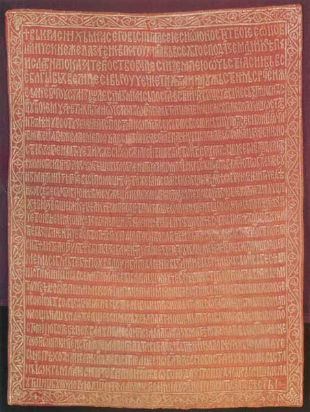 Praise to Prince Lazar